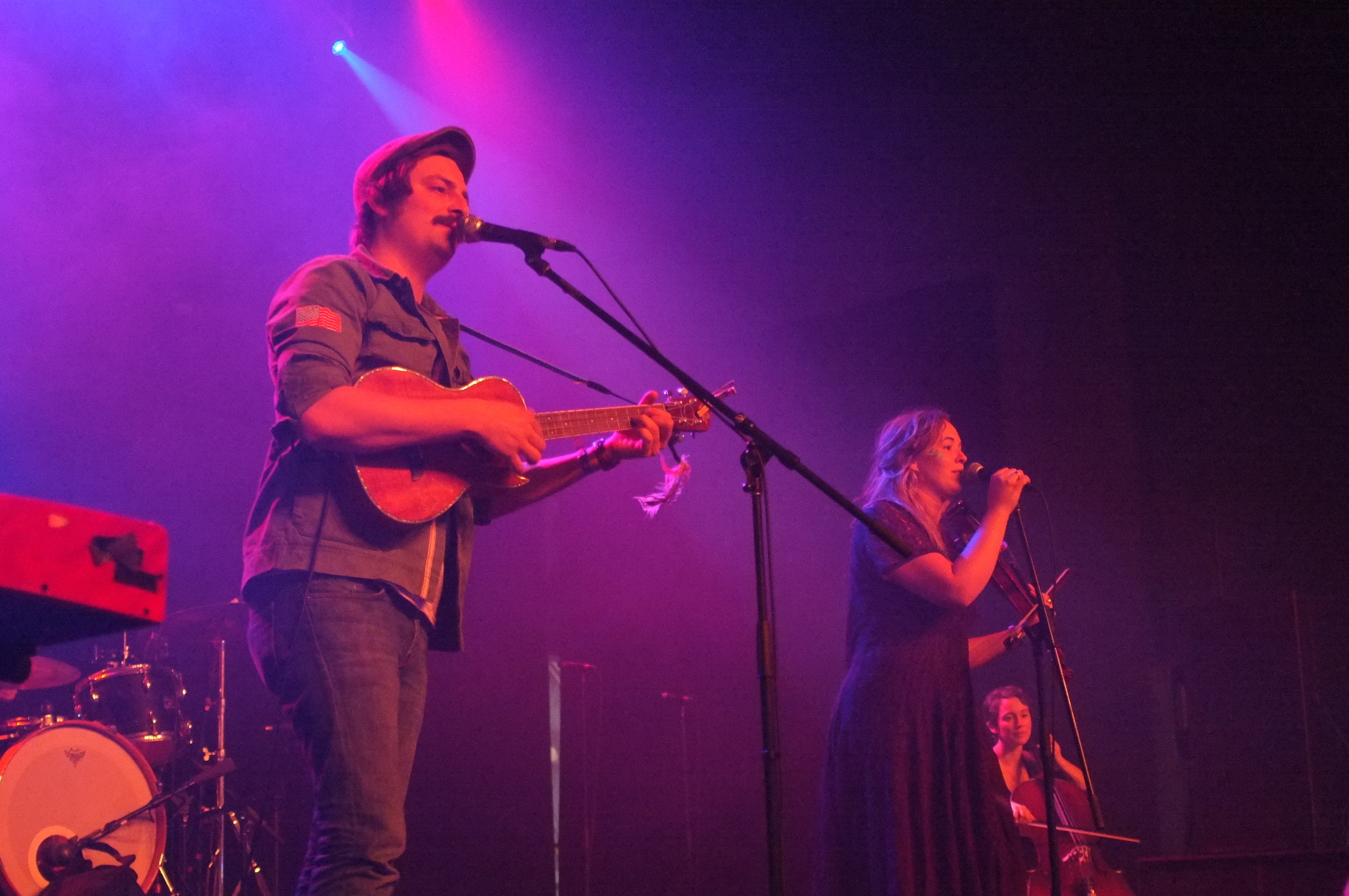 Wild Child performs at Emo's Austin on April 4, 2014; photo by Jessica Klima Photography